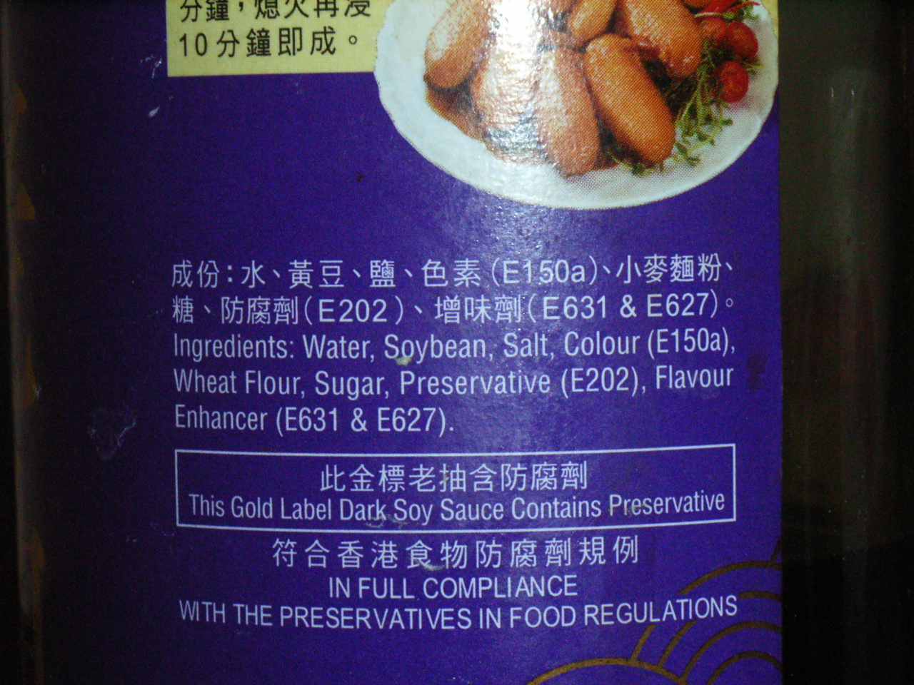 Dark Soy sauce (created by Syauz).